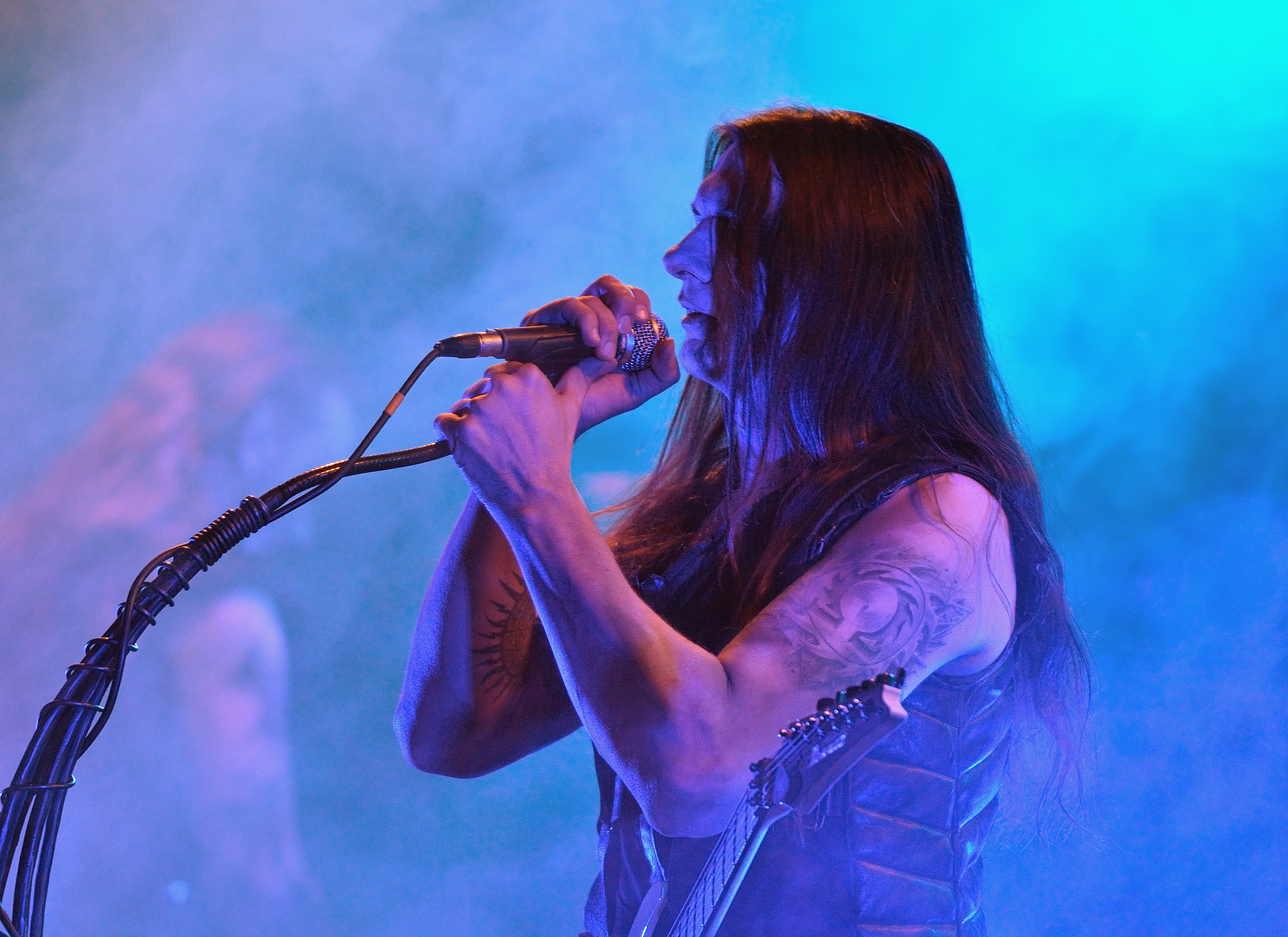 Hate at Hatefest 2015 in Berlin.